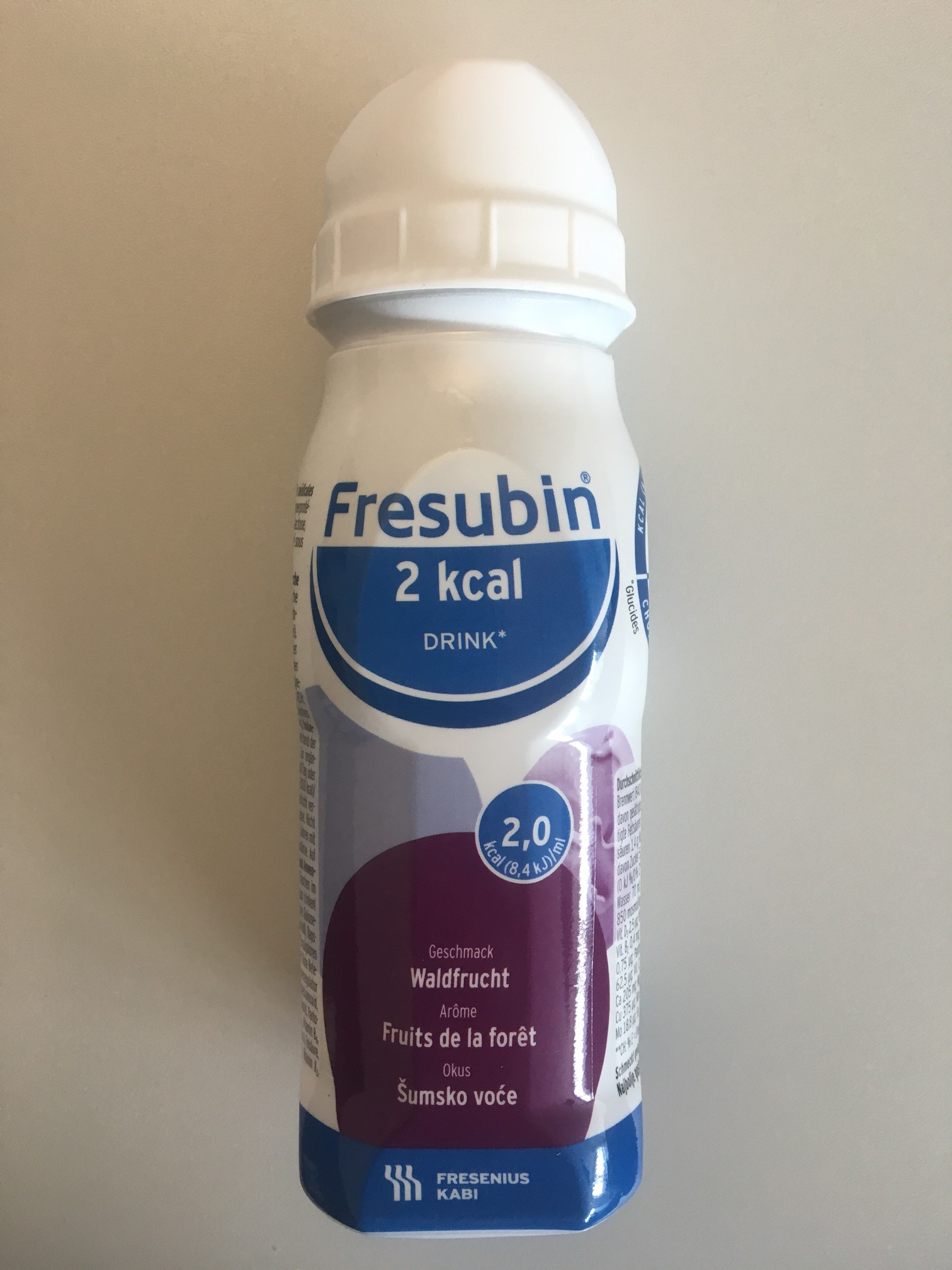 Fresubin 2kcal DRINK